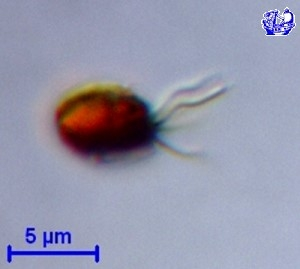 Isochrysis galbana, lugol fixed, cell in division (four flagella) Roscoff Culture Collection, strain 179.